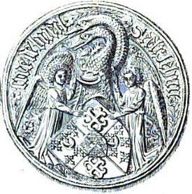 Seal of Jean V de Bueil, count of Sancerre, after 1451